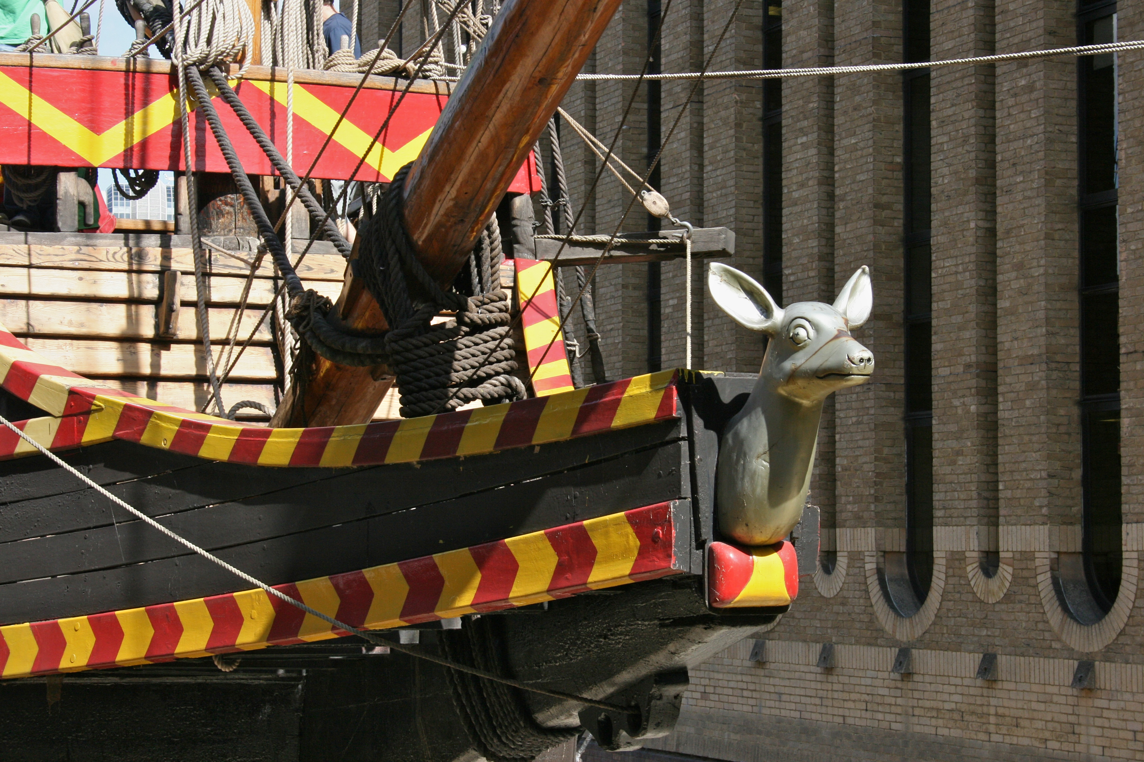 The Golden Hinde (full-sized reconstruction), London.